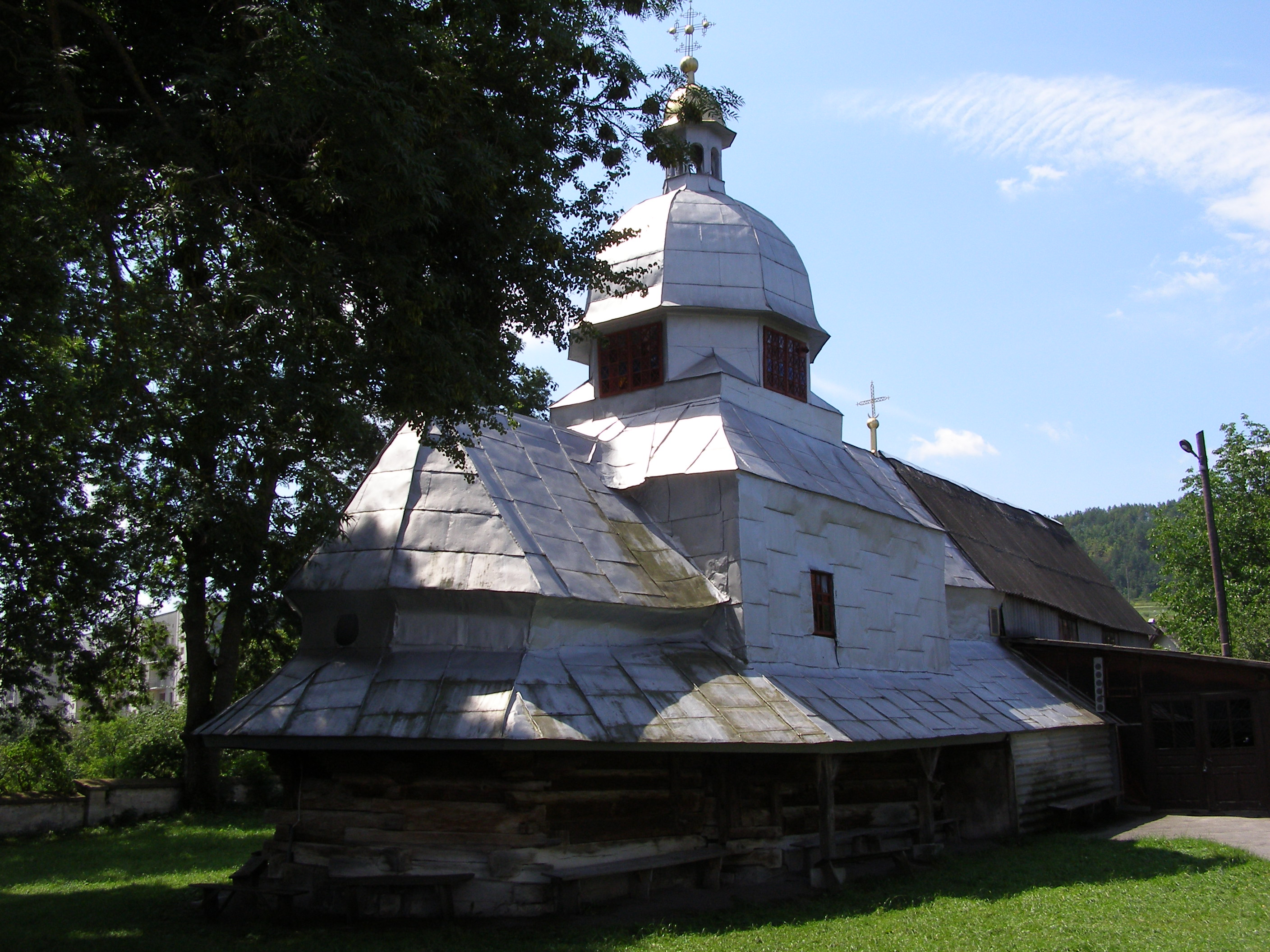 Saint Nicholas Ukrainian Orthodox Church in Berezhany, Ternopil Oblast, western Ukraine.